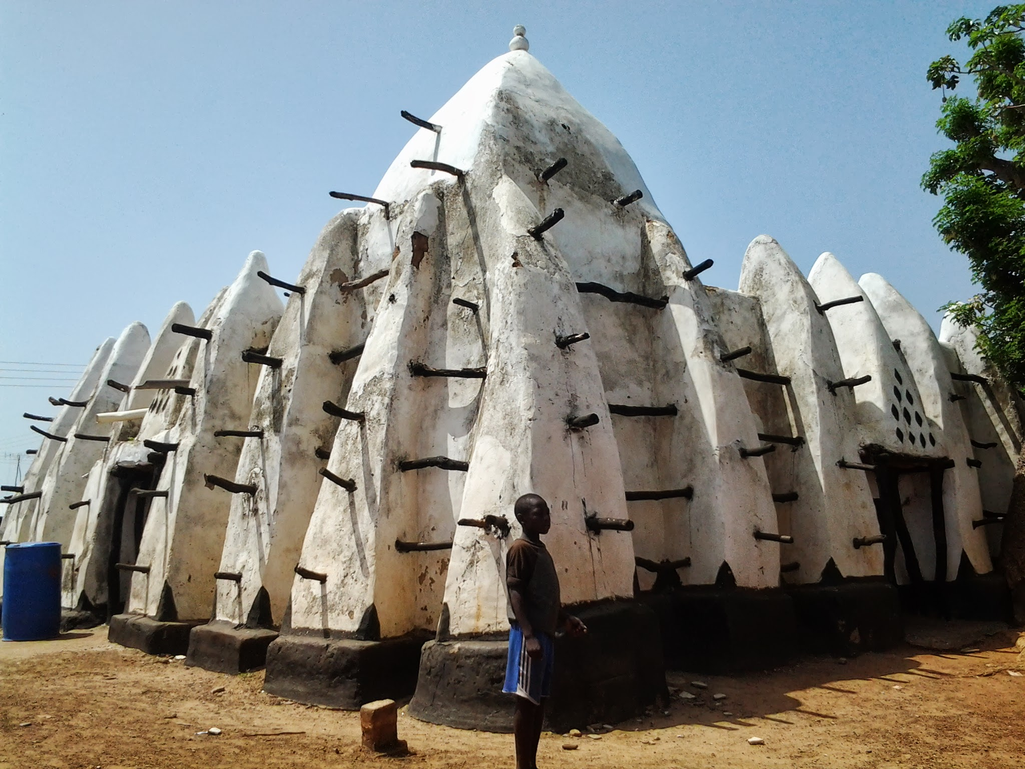 Larabanga Mosque is believed to be the oldest mosque in Ghana and one of the oldest in West Africa